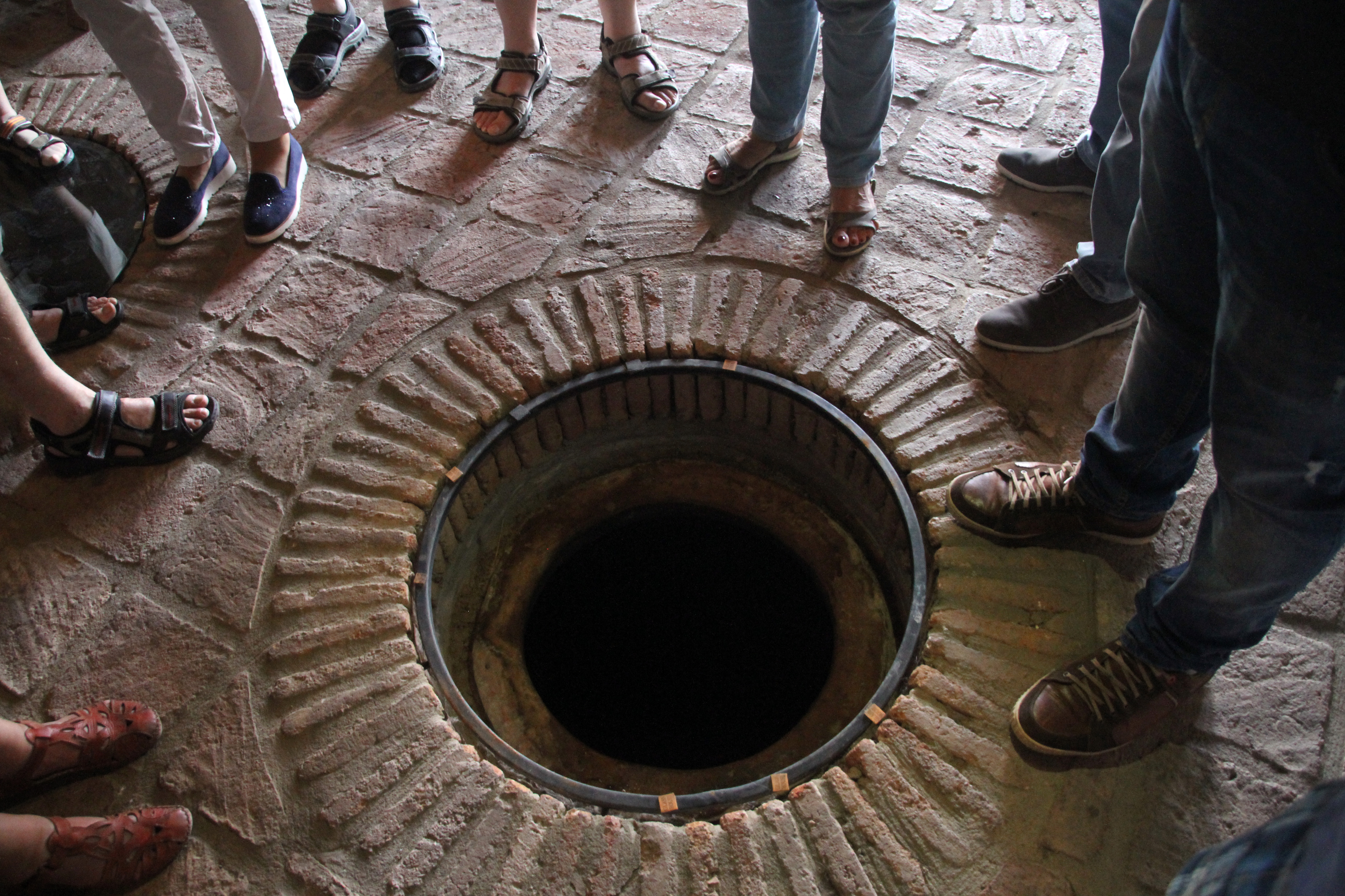 Mosmieri vinery in Georgia